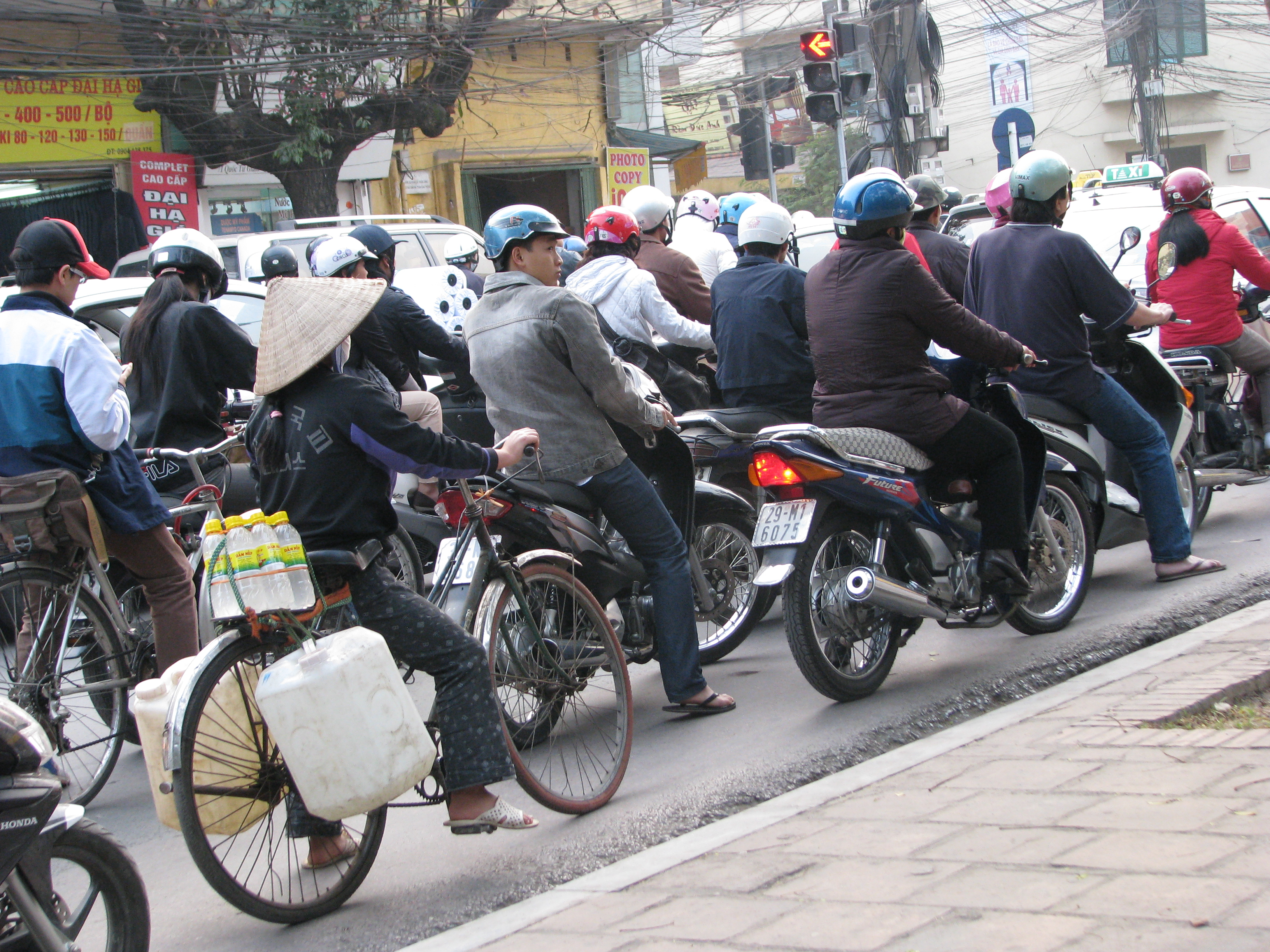 The busy, chaotic traffic of 2-wheelers in Hanoi